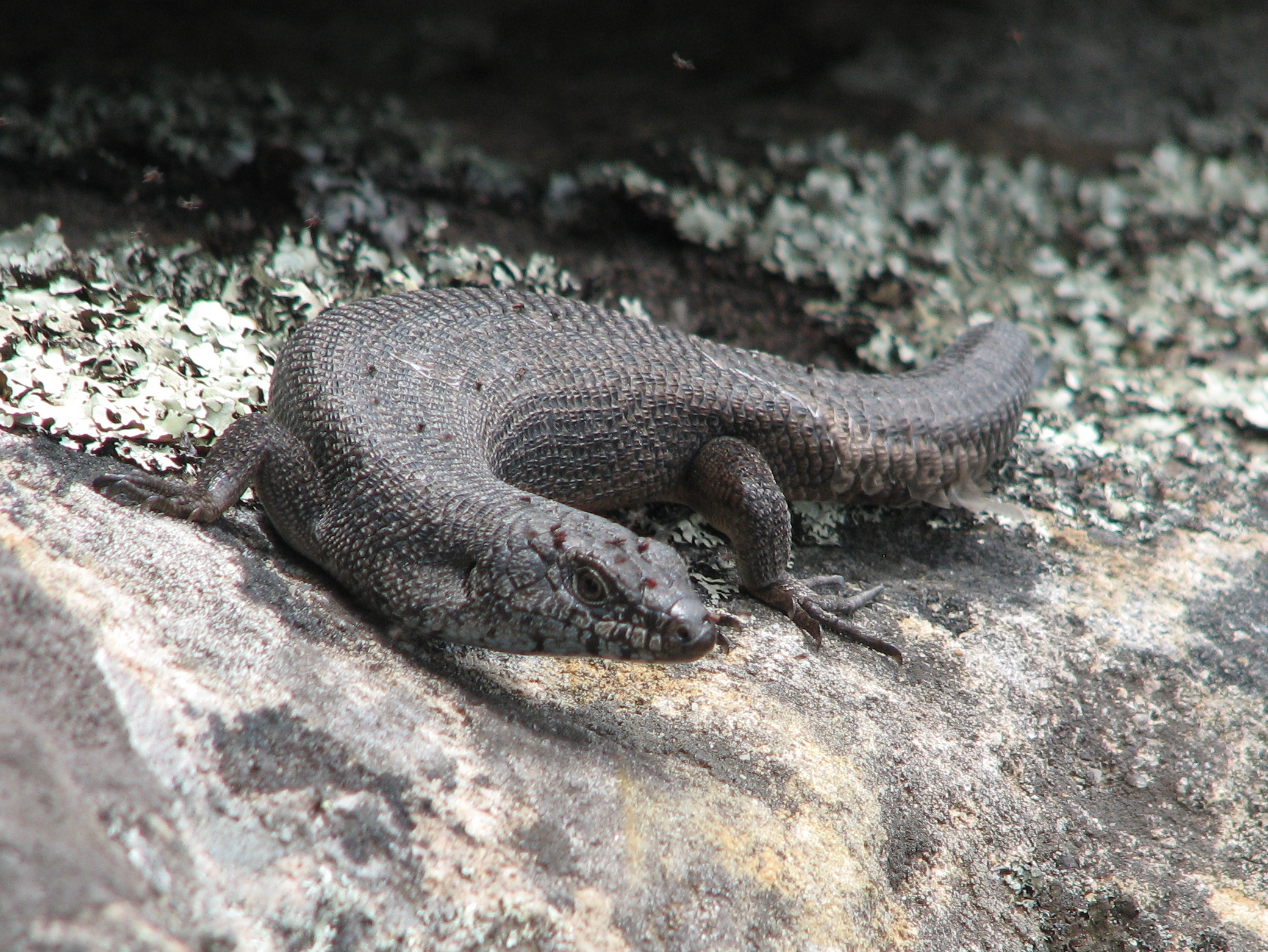 known to its friends as the black rock skink, and sometimes the Black Crevice Skink, this one was about 20cm long and living under a rock at Hargrave's lookout in Blackheath